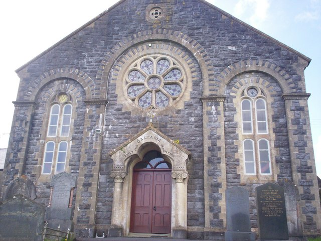 Calfaria Chapel, Login, Whitland